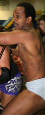 Professional wrestler Norman Smiley in 2007.